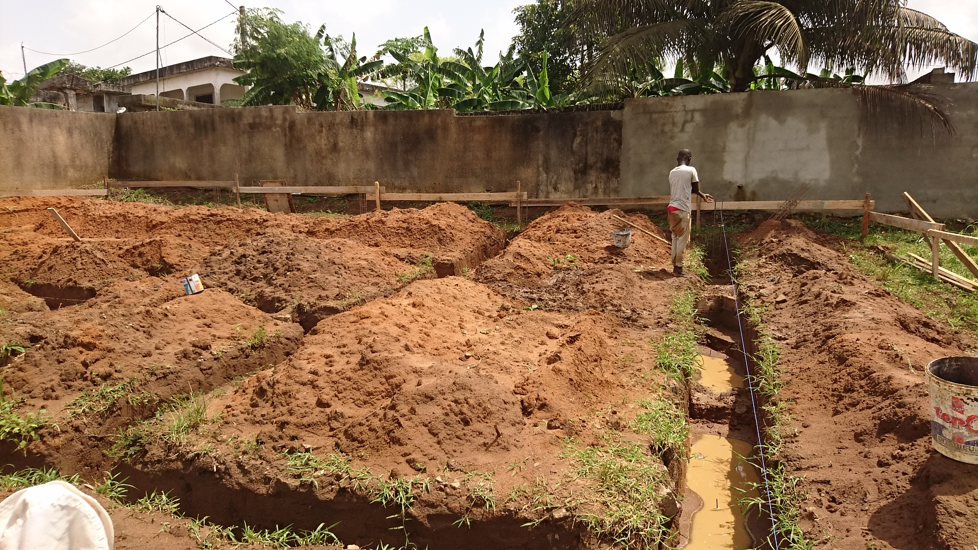 This is an image of "African people at work" from Ivory Coast